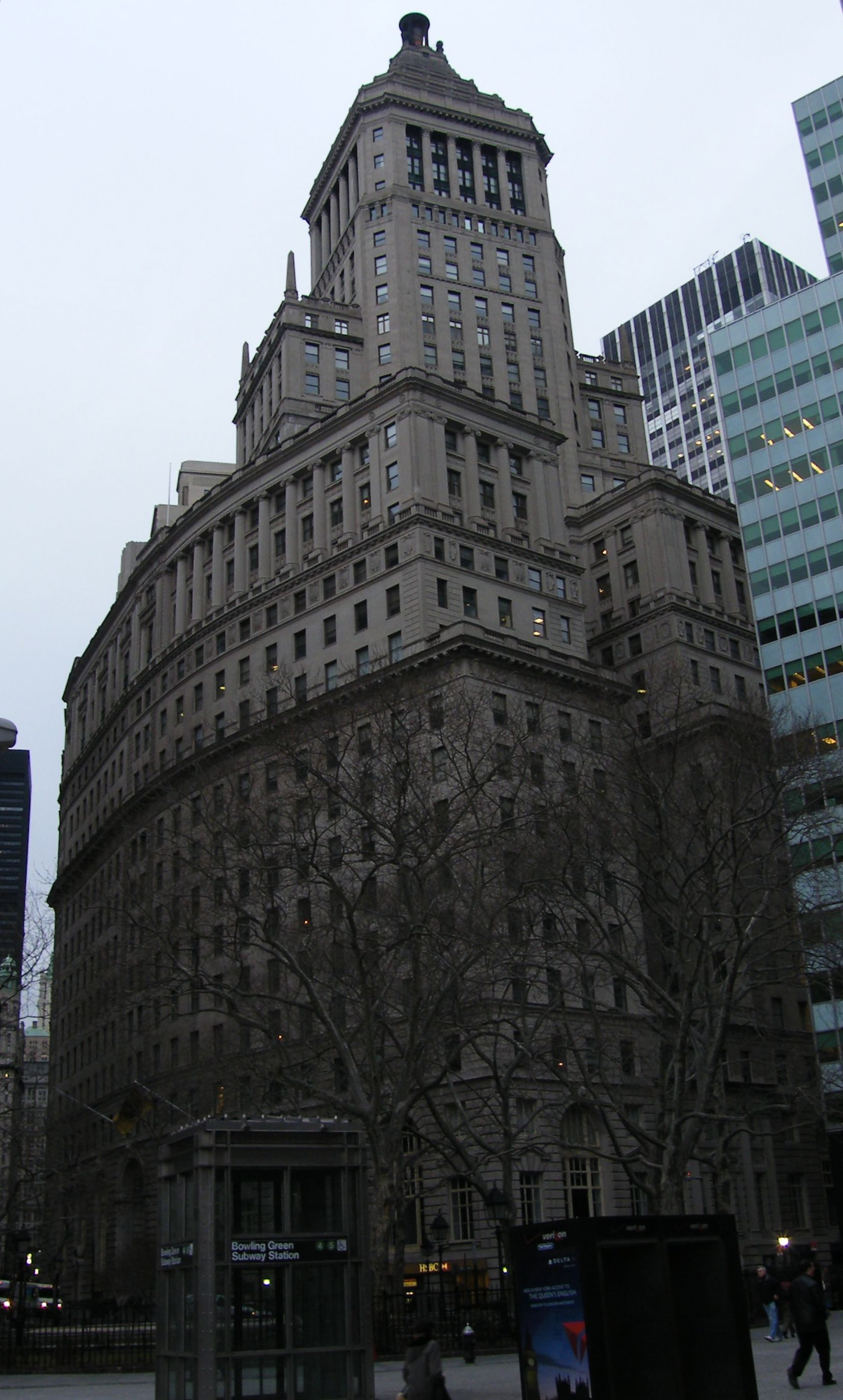 Looking north at former Standard Oil headquarters in New York City. NYCLPC designation 1995. See also File:26 Bwy dusk jeh.JPG.